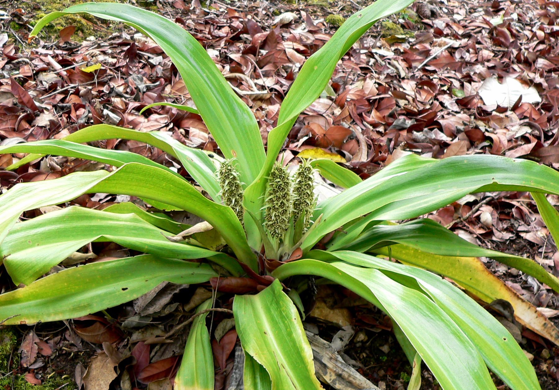 Photo of Campylandra chinensis at the University of California Botanical Garden